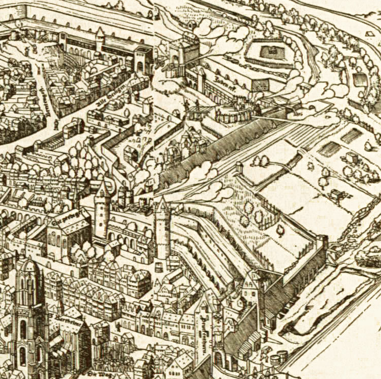 Crop of historical map of 1552, city of Frankfurt am Main, Hesse, Germany, focus on old jewish cemetery of 1180, Judengasse, Judenmarkt